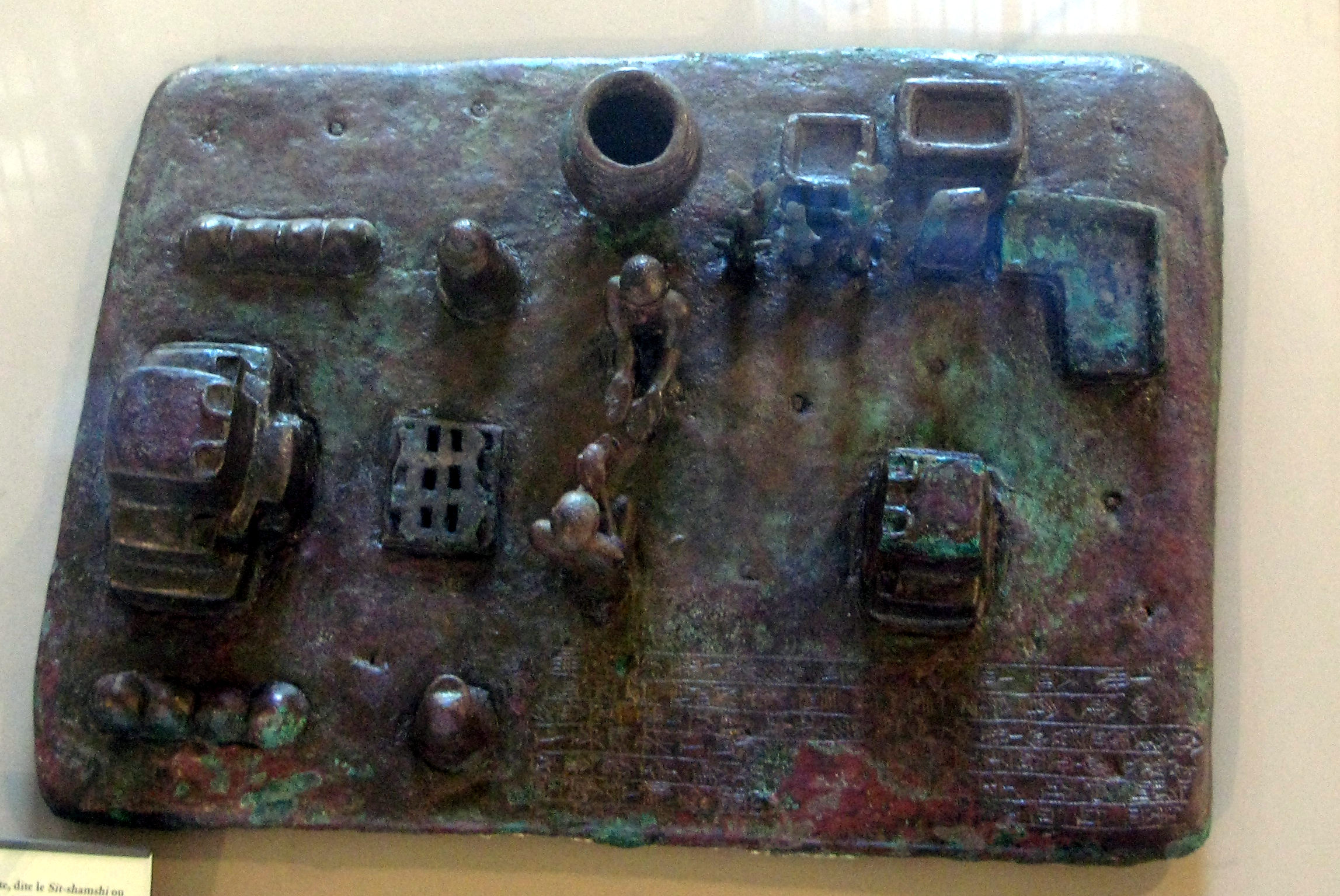 ArtistUnknownDescription Model of temple, also named Sit-shamshi (ceremony of the rising of the sun) [1] 12th century BC Susa Bronze Elamite inscription: "I, Shilhak-Inshushinak, son of Shutruk-Nahhunte, beloved servant of Inshushinak, king of Anzan and Susa, who made the kingdom grow, protector of Elam, I built a bronze sit-shamshi" Current location (Inventory)Louvre Museum Native nameMusée du LouvreLocationParisCoordinates48° 51′ 37″ N, 2° 20′ 15″ E Established1793Website control : Q19675 VIAF: 257711507 ISNI: 0000 0001 2260 177X ULAN: 500125189 LCCN: n80020283 NLA: 35912436 WorldCat Sully Rez-de-chaussée Iran, la Susiane à l'époque médio-élamite Salle 10Accession numberSb 2743Credit lineFound by J. de Morgan between 1904 and 1905Source/PhotographerRama Model of temple, also named Sit-shamshi (ceremony of the rising of the sun) [1] 12th century BC Susa Bronze Elamite inscription: "I, Shilhak-Inshushinak, son of Shutruk-Nahhunte, beloved servant of Inshushinak, king of Anzan and Susa, who made the kingdom grow, protector of Elam, I built a bronze sit-shamshi"